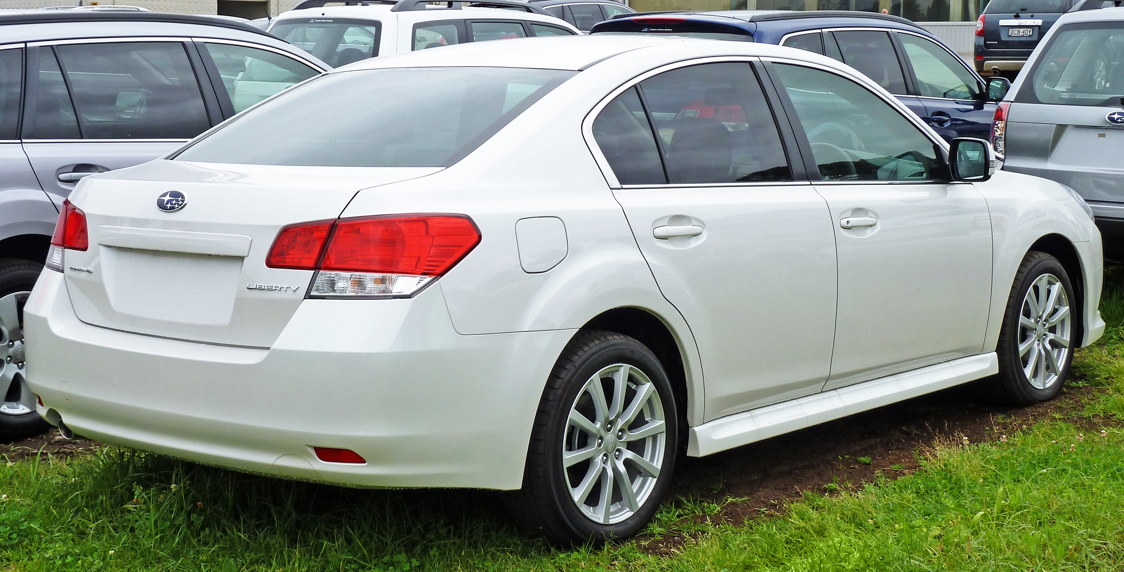 2010 Subaru Liberty (MY10) 2.5i sedan. Photographed at Suttons Subaru, Chullora, New South Wales, Australia.